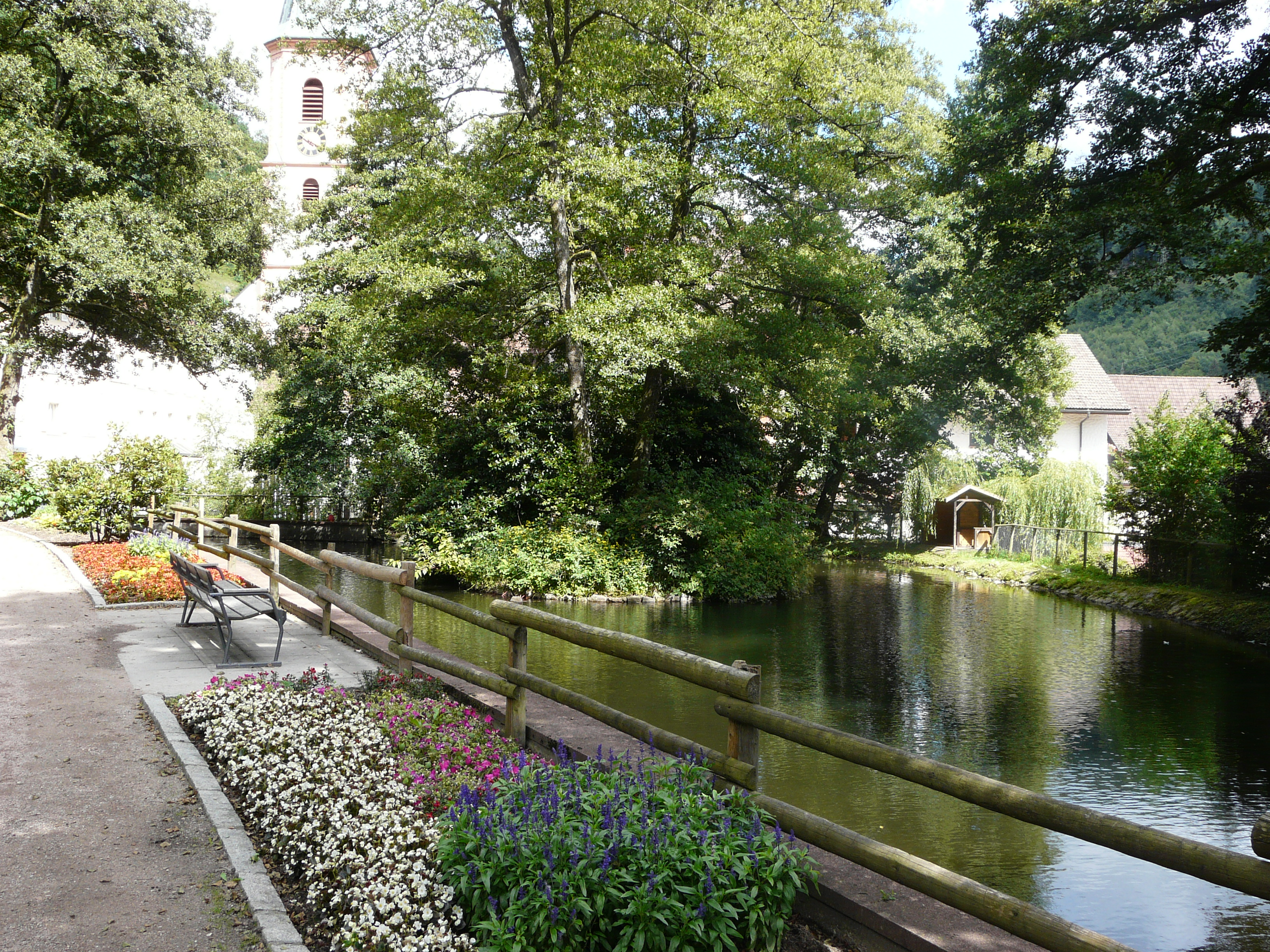 "Schwanenweiher" (Swan Pond) in Zell im Wiesental